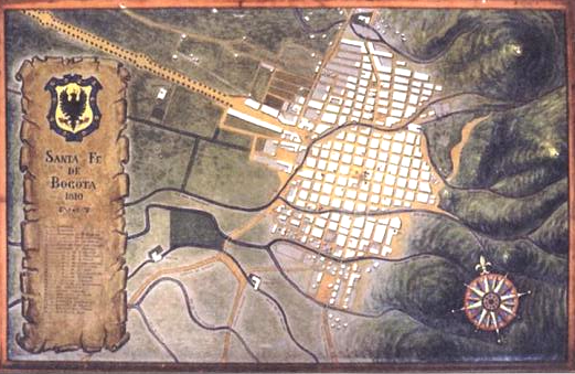 map of Bogota